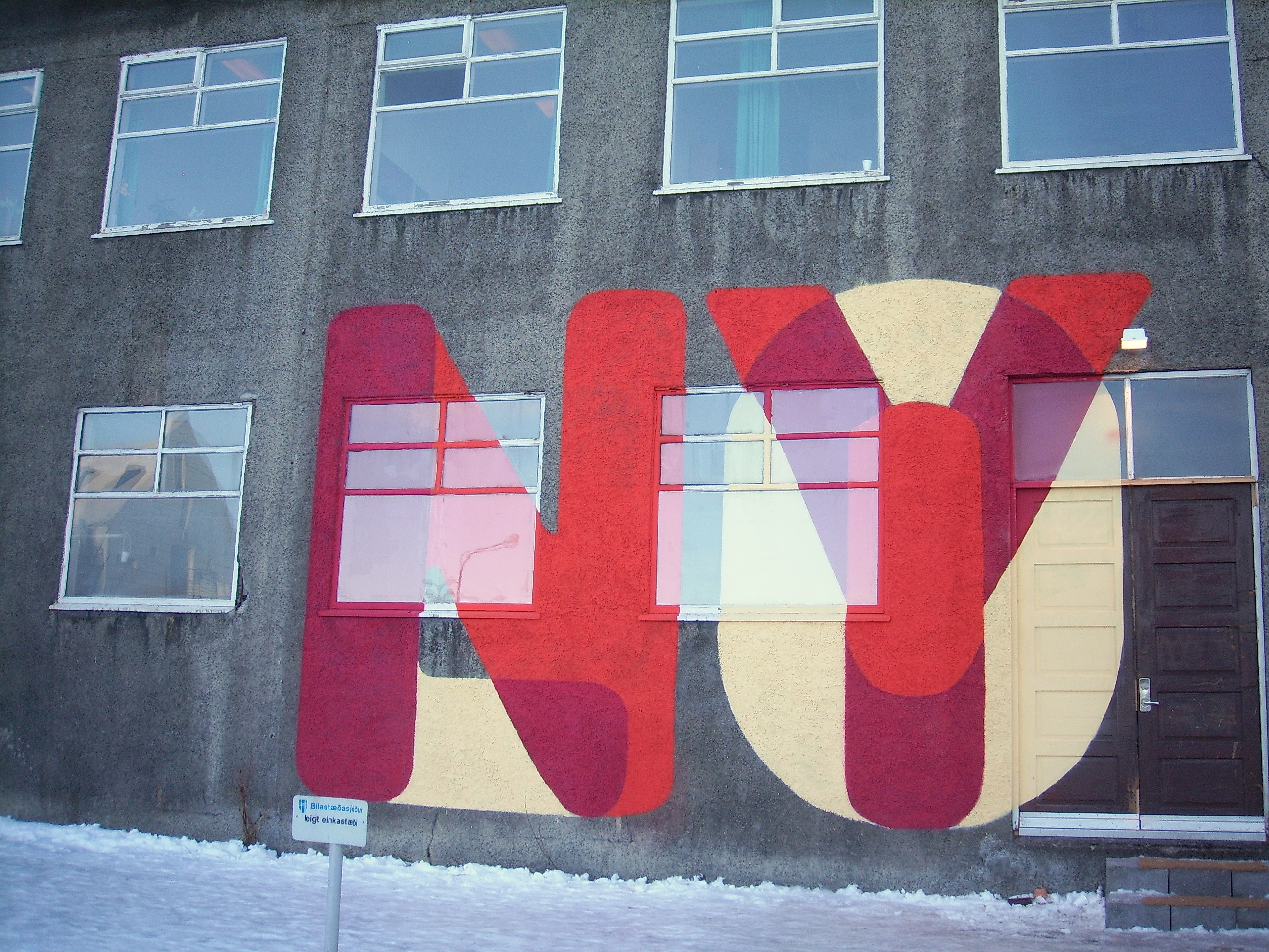 The entrance of the Living Art Museum in Skúlagata 28, Reykjavík, Iceland